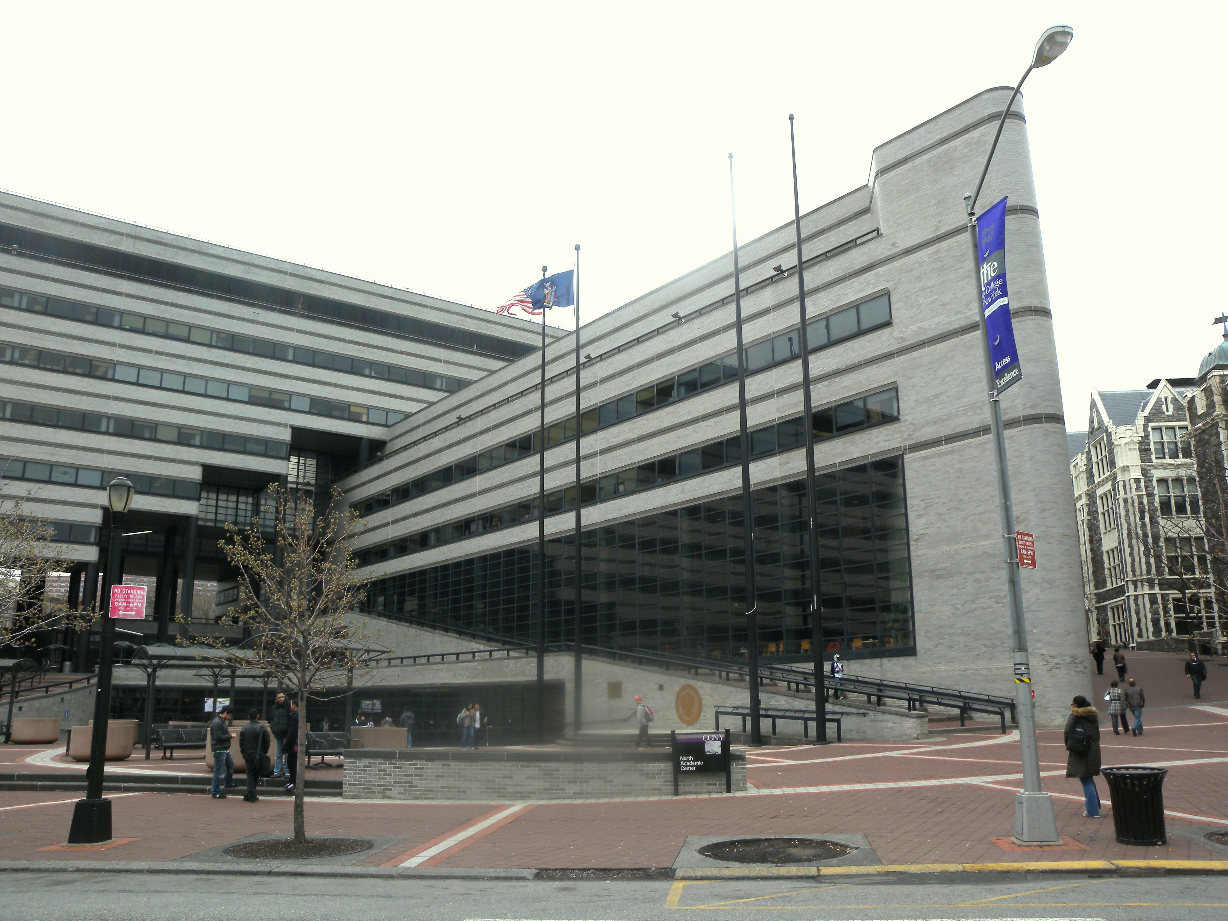 Looking west across Convent Avenue at North Academic Center on a cloudy midday.